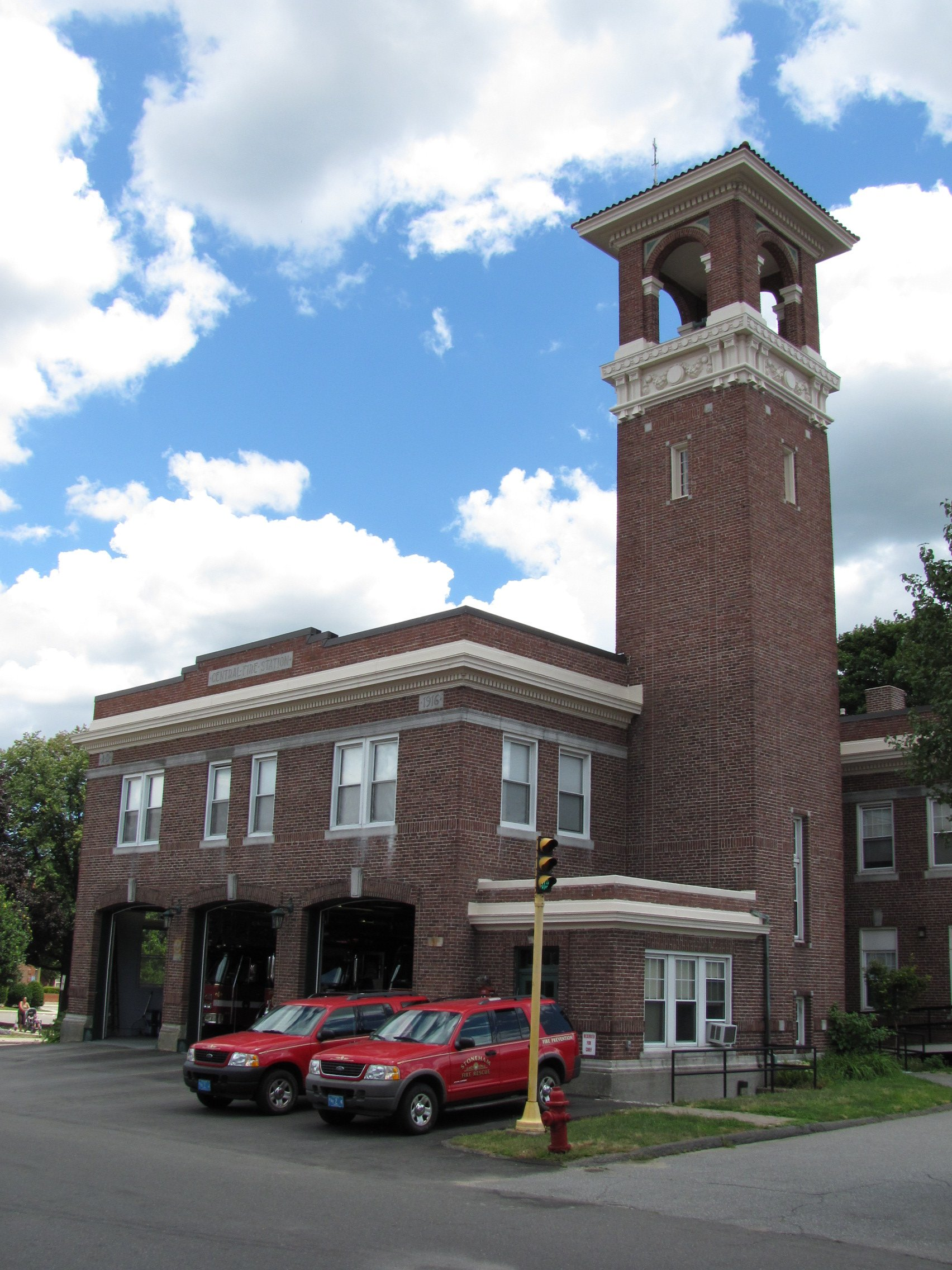 Stoneham Fire Station, Stoneham Massachusetts